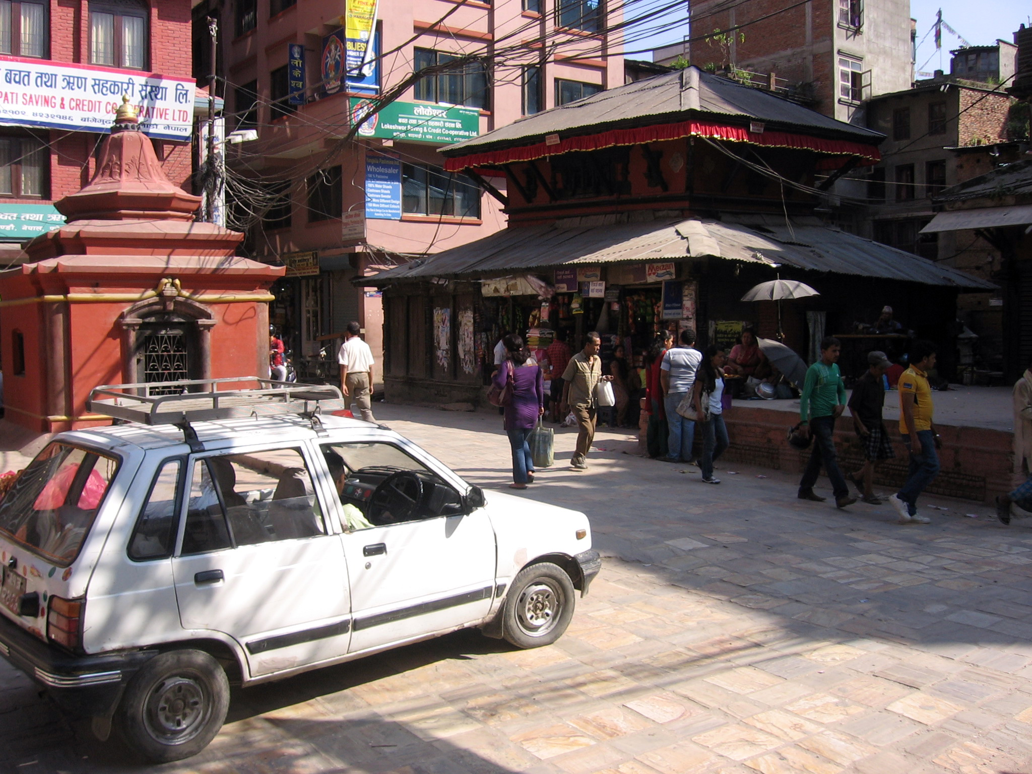 Thaymaru Square in Kathmandu, Nepal.